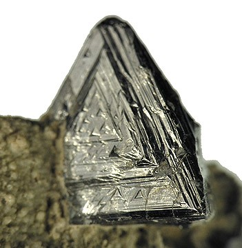 Tetrahedrite Locality: Machacamarca Mine, Machacamarca, Machacamarca District (Colavi District), Cornelio Saavedra Province, Potosí Department, Bolivia (Locality at ) Size: 3.8 x 2.8 x 1.7 cm. There was a small pocket that produced these Tetrahedrite specimens about 5 years ago, and they are some of the finest quality Tetrahedrite specimens that I have seen from Bolivia. This specimen features on predominant tetrahedron with VERY sharp faces and extremely highly luster sitting on matrix. The crystal itself has many small tetrahedral "hillocks" covering the faces of the crystal which make for a very unique "ripple" effect on all sides.